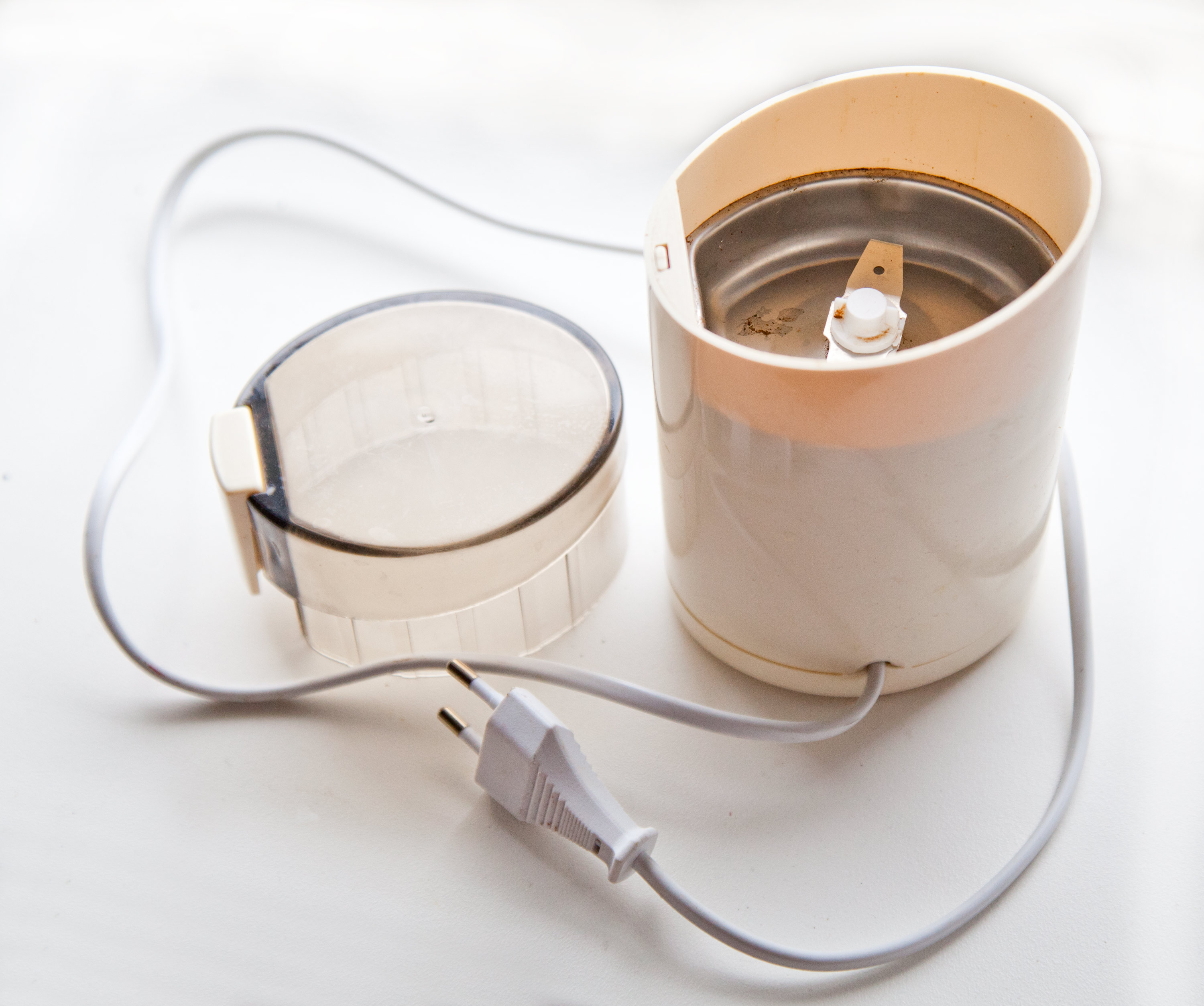 Some electric blade grinder